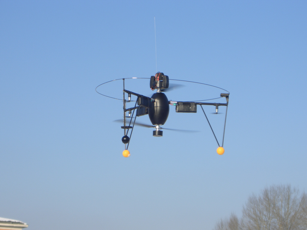 FanCopter in the air Feb 2006.